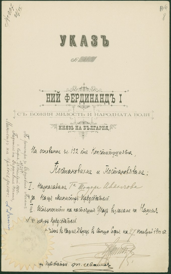 Decree №11 of Prince Ferdinand I of the appointment of Todor Ivanchov prime minister, 1900.